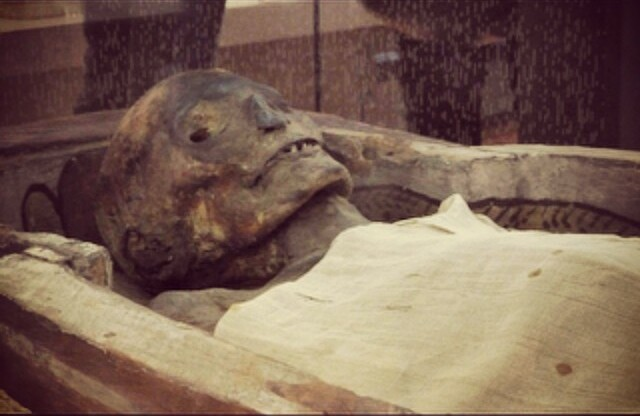 Asru. No.: 1777 (Ancient Worlds, The Manchester Museum)